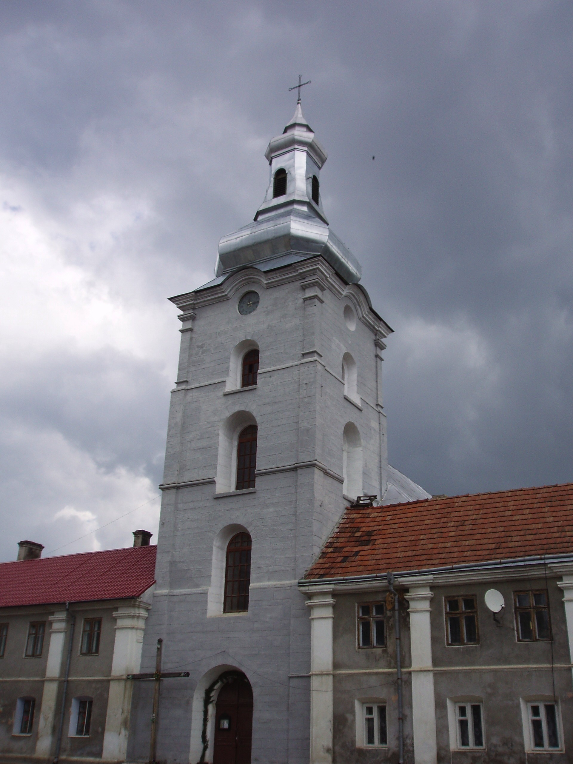 Roman Catholic Church in Zalischyky